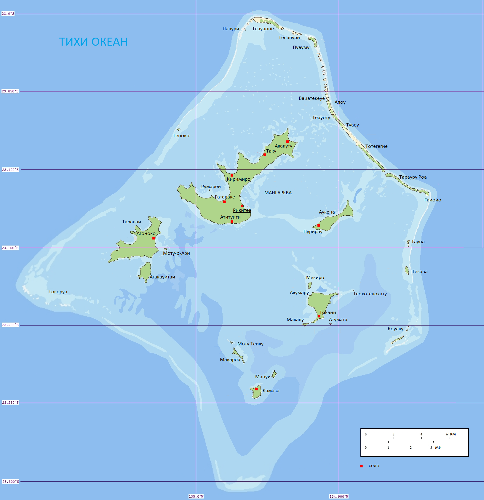 Map of Gambier Islands in Macedonian.